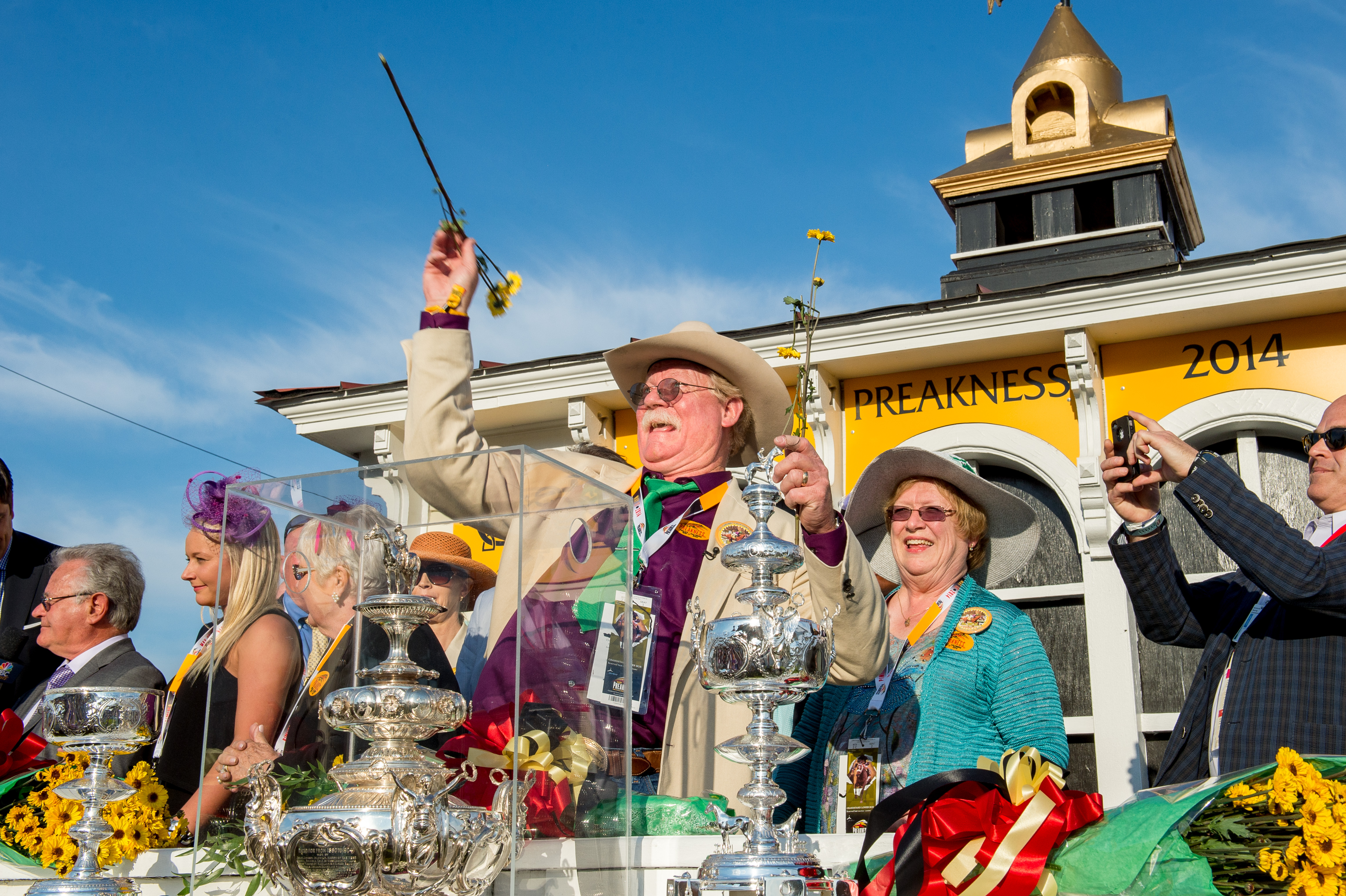 Art Sherman (far left) and Steve Coburn (in cowboy hat) and Carolyn Coburn (wearing turquoise) at trophy presentation for their horse California Chrome at the 139th Preakness Stakes. Woodlawn Vase trophy center front, with replicas on either side. Faye Sherman, wife of Art Sherman, visible from side third from left. by Jay Baker at Baltimore, MD.